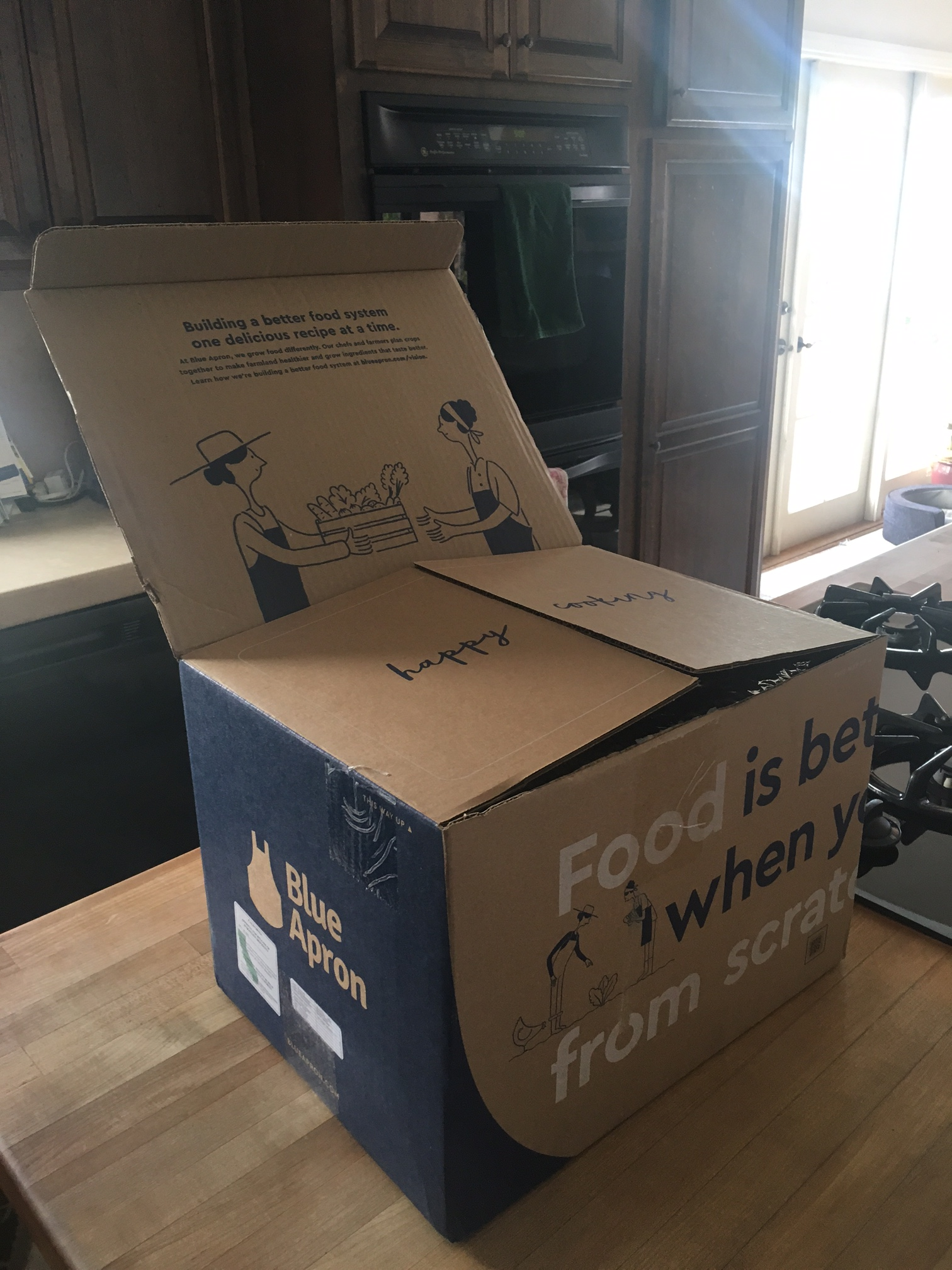 A box used by Blue Apron to ship their meal kits